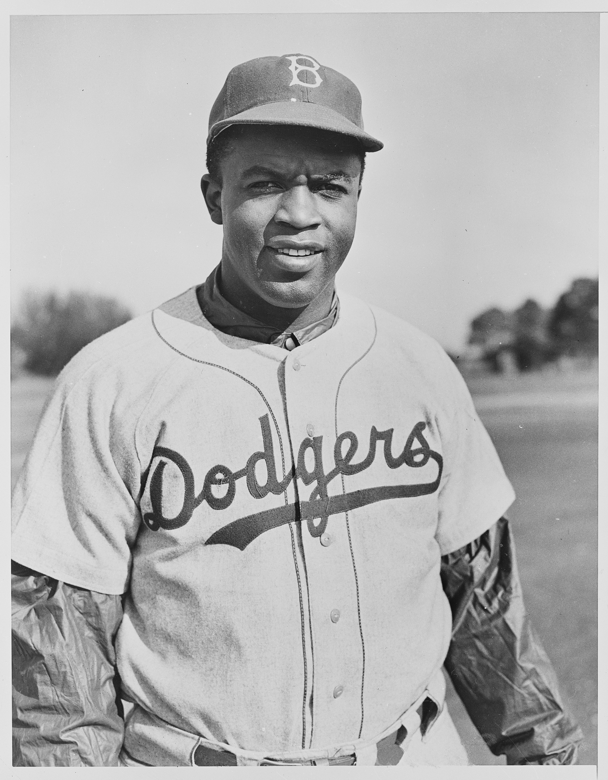 Jackie Robinson in his Brooklyn Dodgers Uniform, 1950.